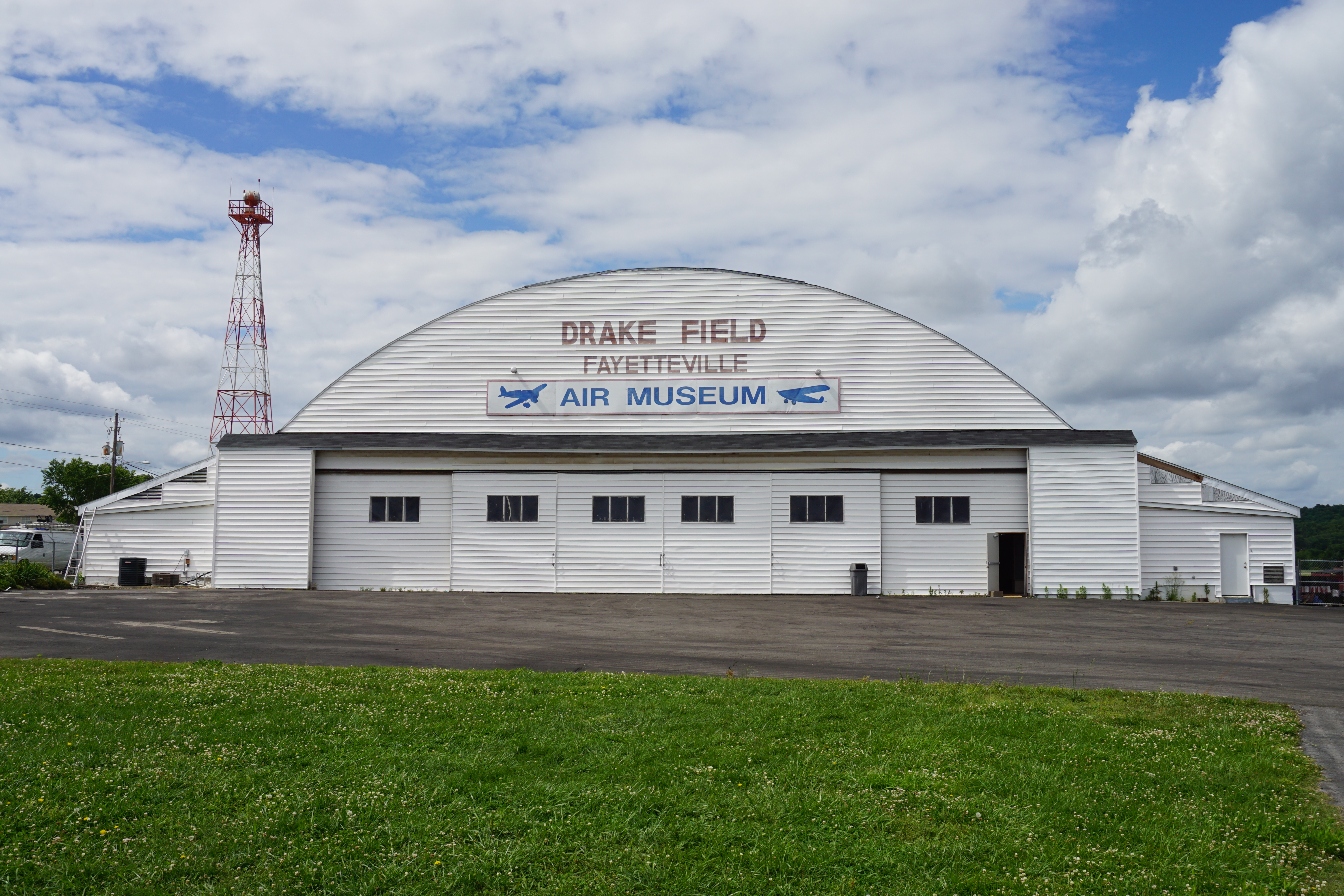 The exterior of the Arkansas Air & Military Museum in Fayetteville, Arkansas (United States).